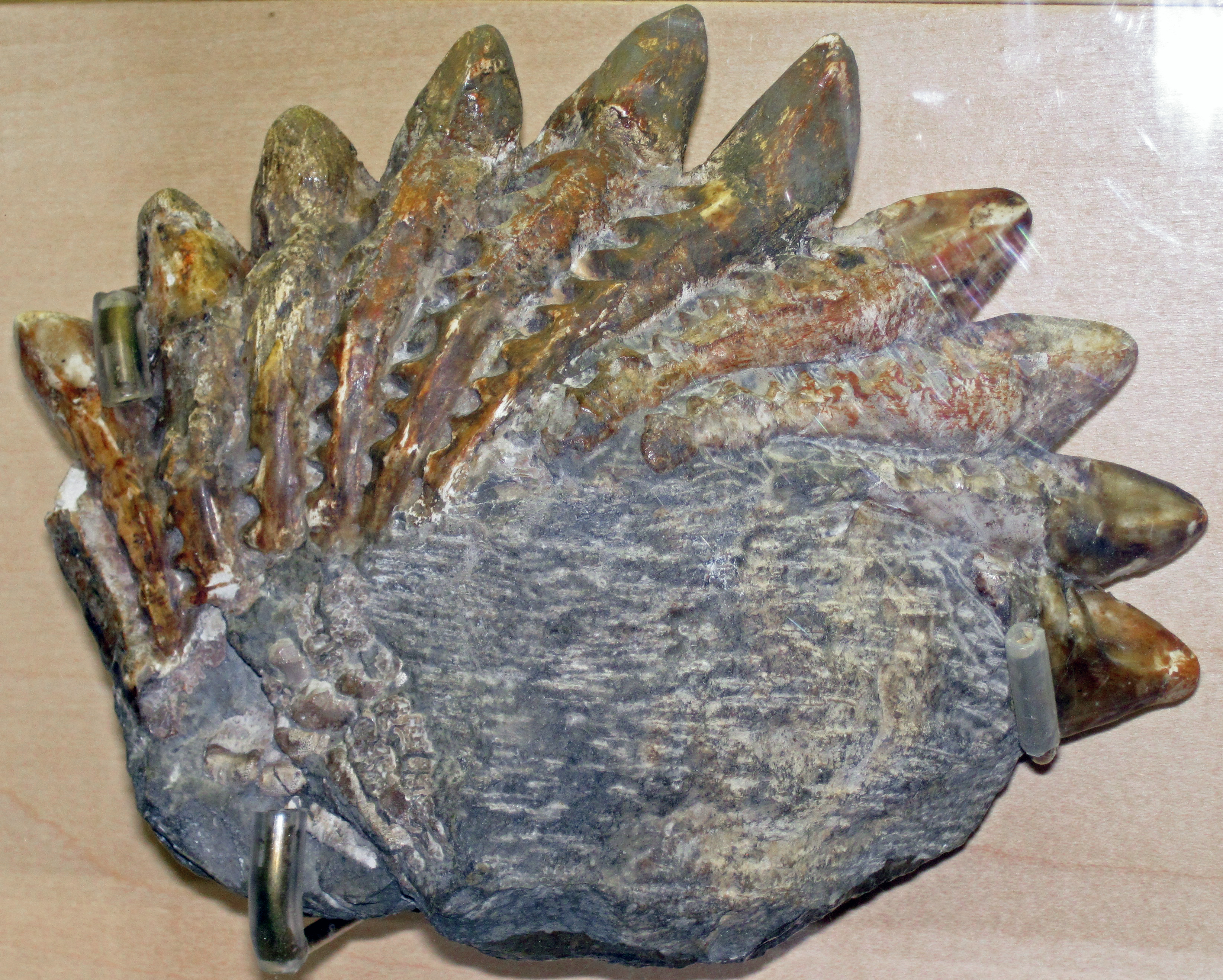 Campodus variabilis (Newberry & Worthen, 1870) - fossil shark teeth from the Late Pennsylvanian of Nebraska, USA. (public display, Nebraska State Museum of Natural History, Lincoln, Nebraska, USA) This species is also known as Agassizodus variabilis. Some Late Paleozoic sharks were remarkable in having tooth whorls or spirals (see especially Helicoprion - From museum signage: "Tooth spiral from an extinct shell-crushing shark. Unlike modern sharks, Campodus and its relatives bit with large teeth at the front rather than the sides of the jaws." Classification: Animalia, Chordata, Vertebrata, Chondrichthyes, Eugeneodontidae, Helicoprionidae/Agassizodontidae Locality: unrecorded/undisclosed site in Cass County, southeastern Nebraska, USA